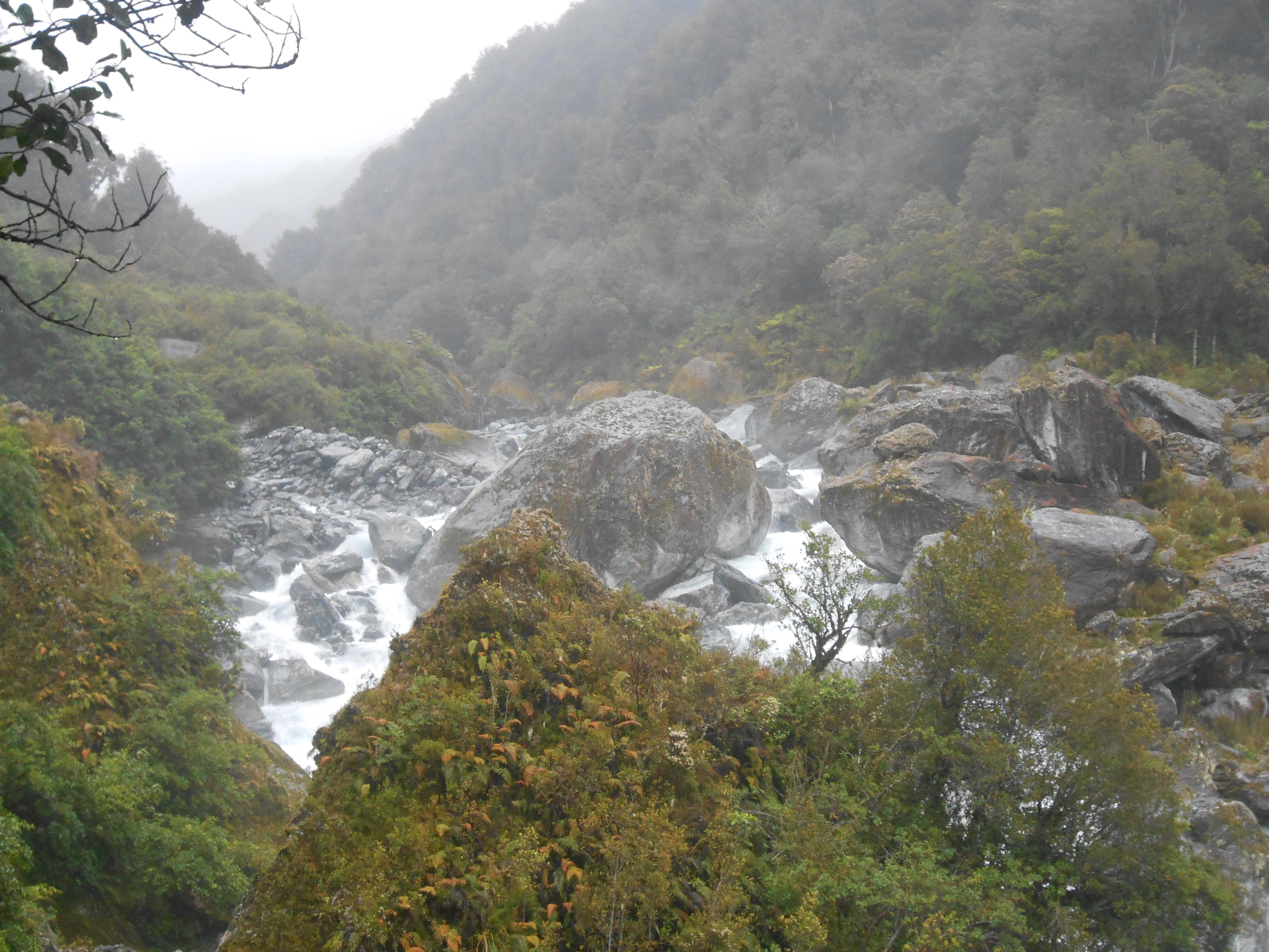 Whataroa River - Upper Reaches. Above the Butler River Junction. -43.4120 Lat, 170.4069 Lon